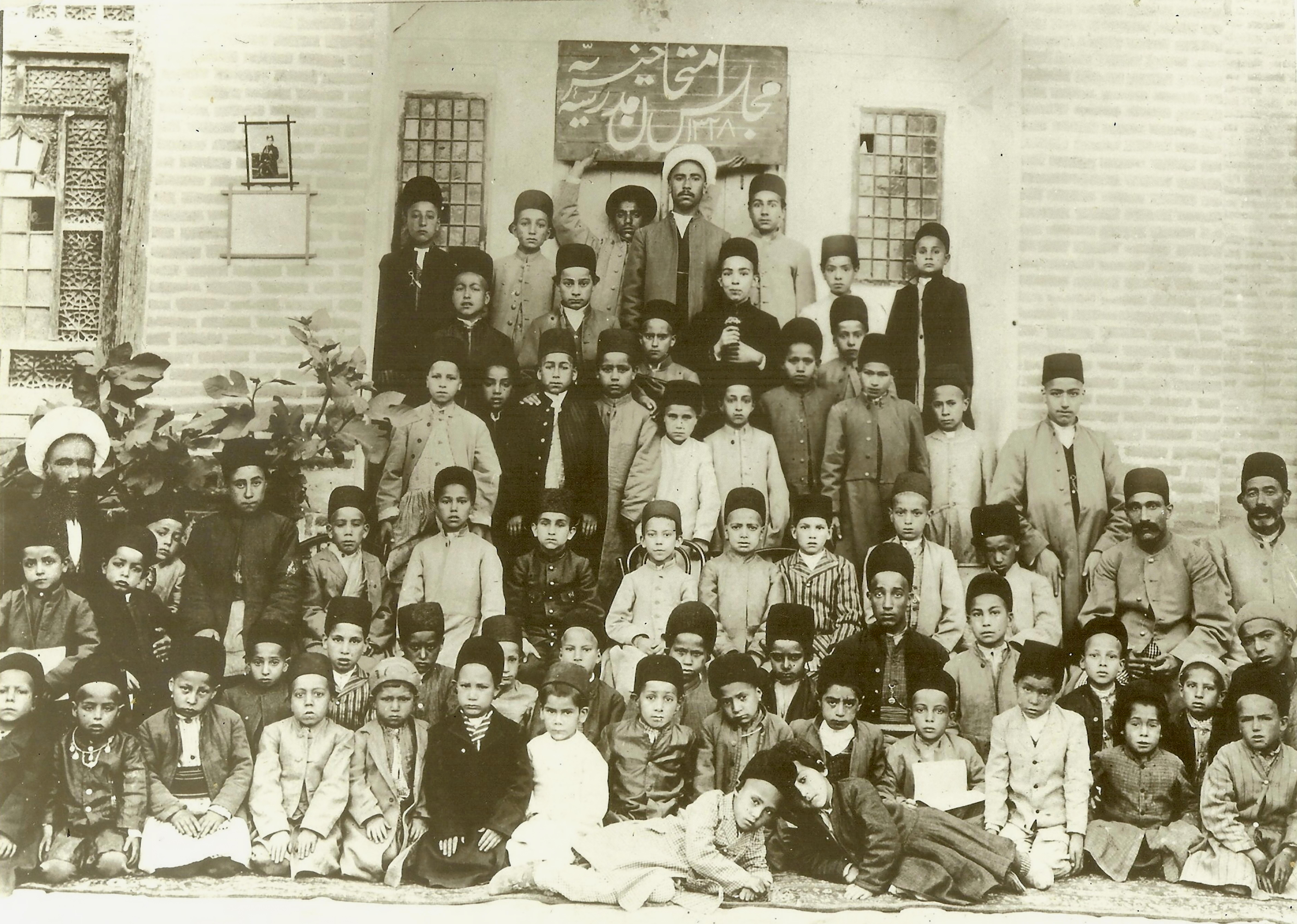 School in Urmia